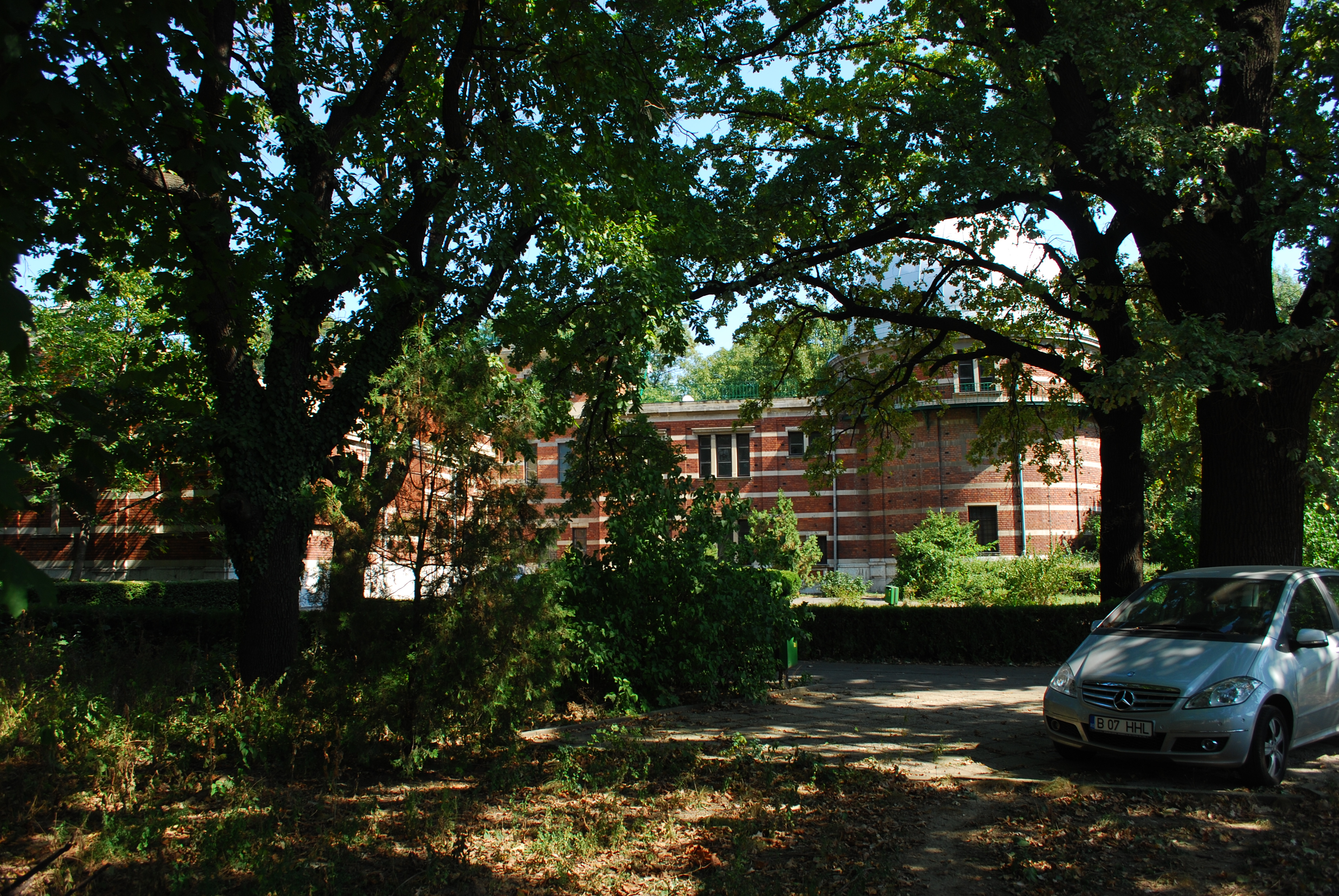 Bosianu observatory, Carol Park, Bucharest, Romania